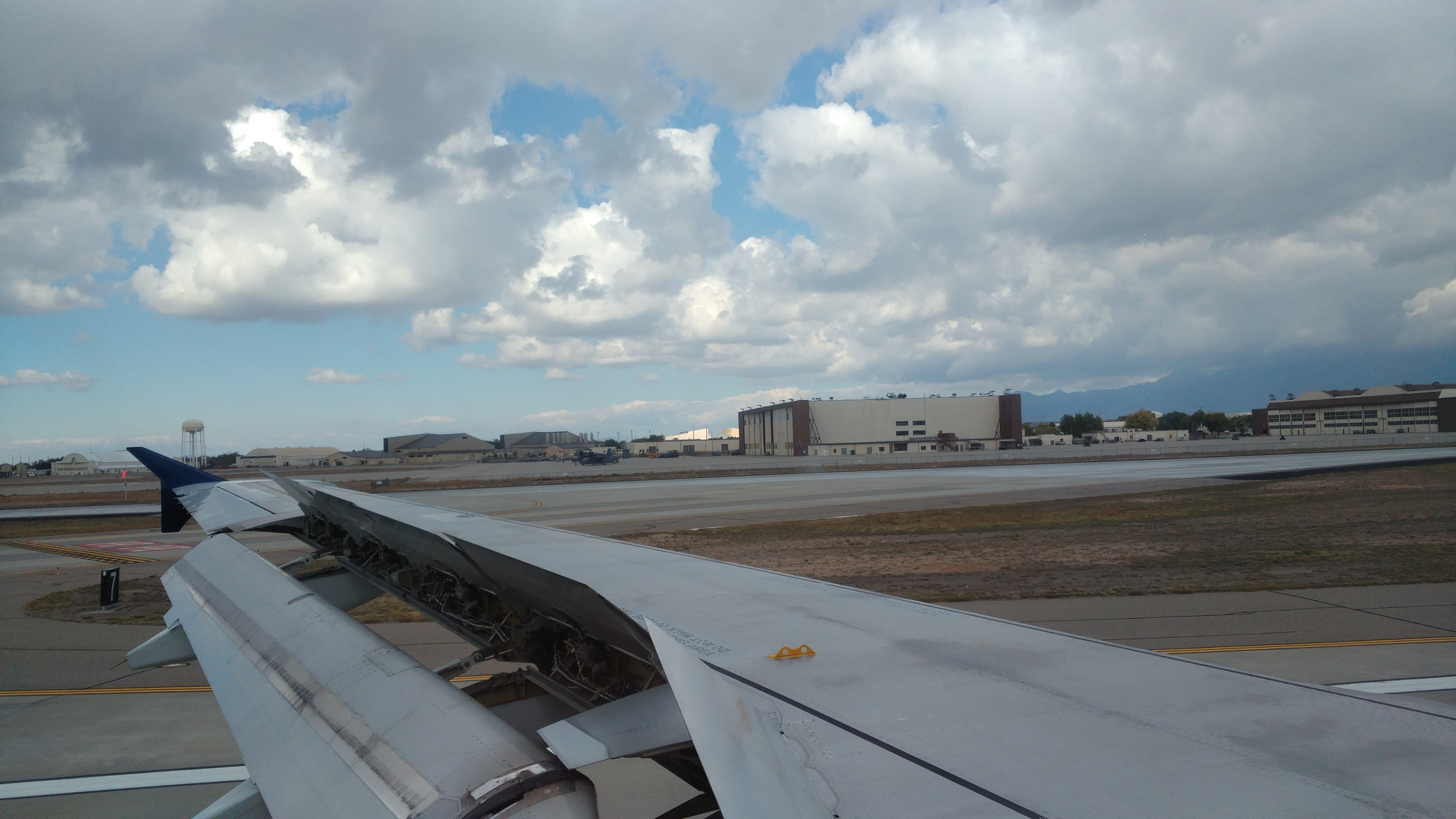 Airplane Flaps During Landing